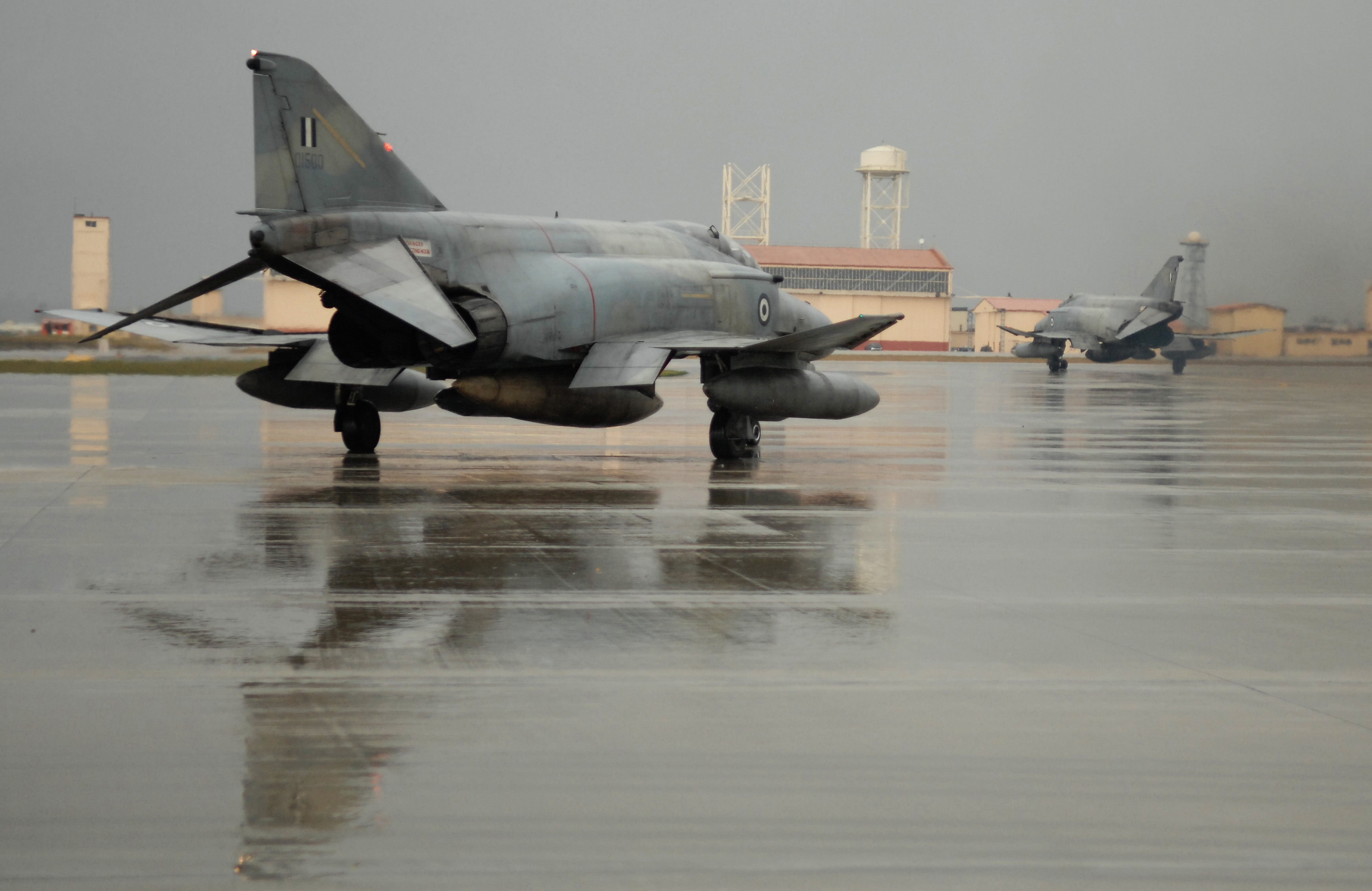 A Greek F-4 Phantom leaves Aviano Air Base on March 19th, 2007. The Greek F-4's stopped at Aviano AB for the weekend to take on fuel.